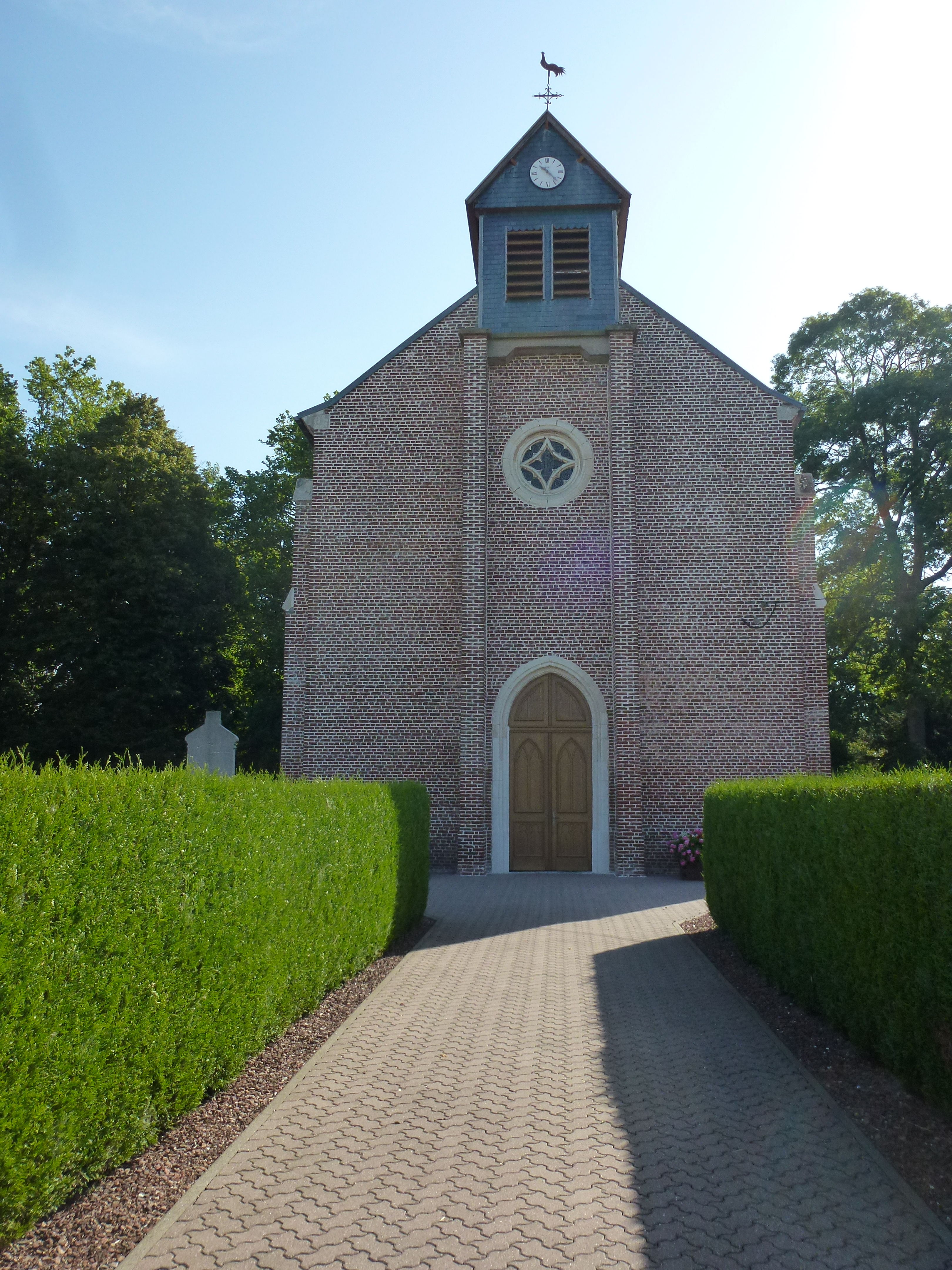 Muncq-Nieurlet (Pas-de-Calais) église Saint-Joseph